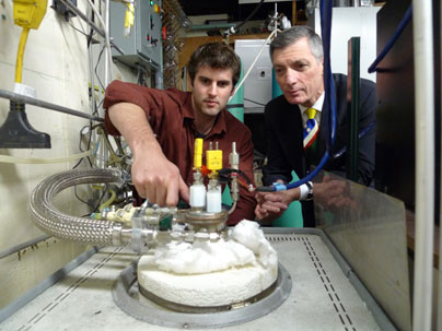 At MIT, Dr. Don Sadoway received a grant through ARPA-E to develop all liquid metal batteries.